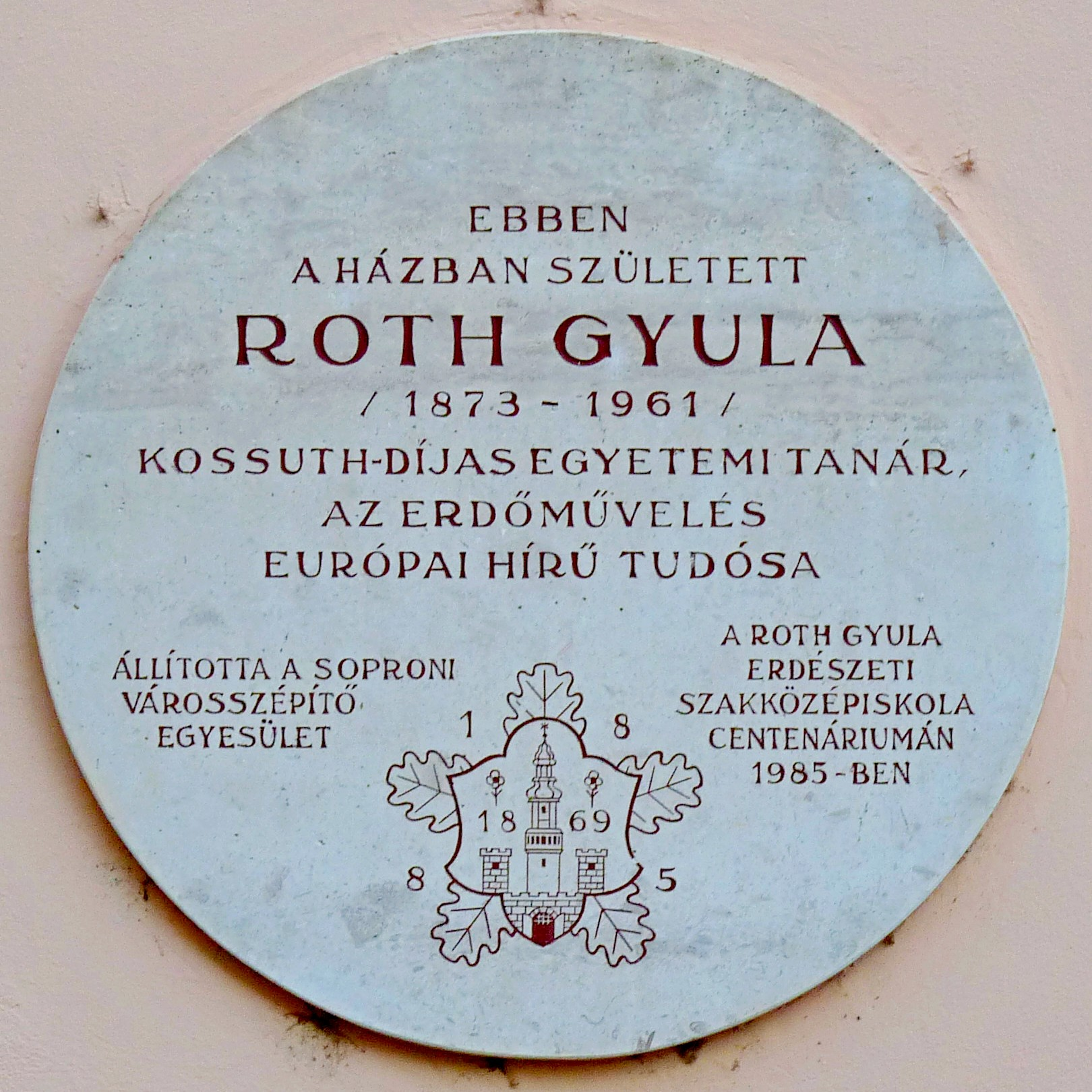 Commemorative plaque to Mr. Gyula Roth (1873–1961) Hungarian forestry engineer, Kossuth Prize winning university professor. It is affixed to the wall of his birthplace. (Sopron, Előkapu Street Nr 5)